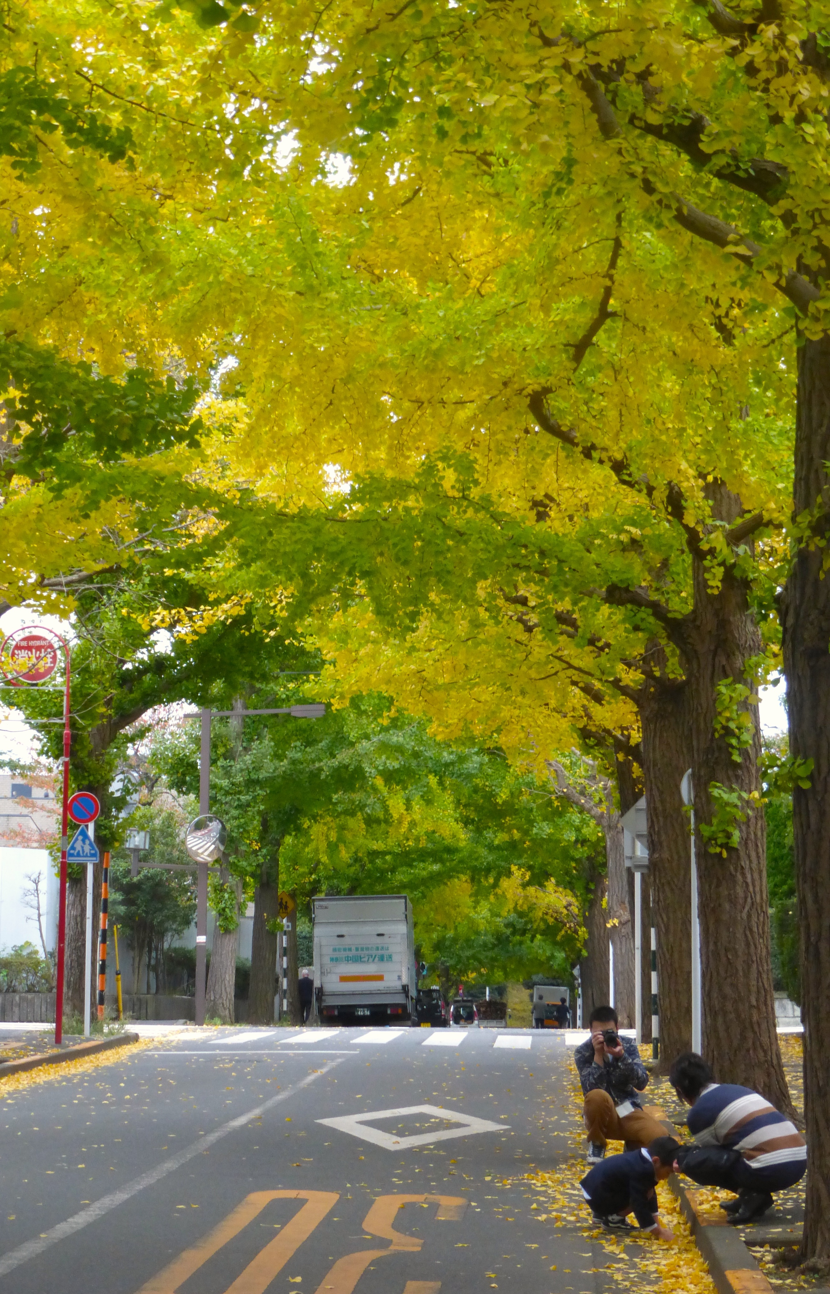 gingko near Den-en-chōfu Station (田園調布駅の近くに)